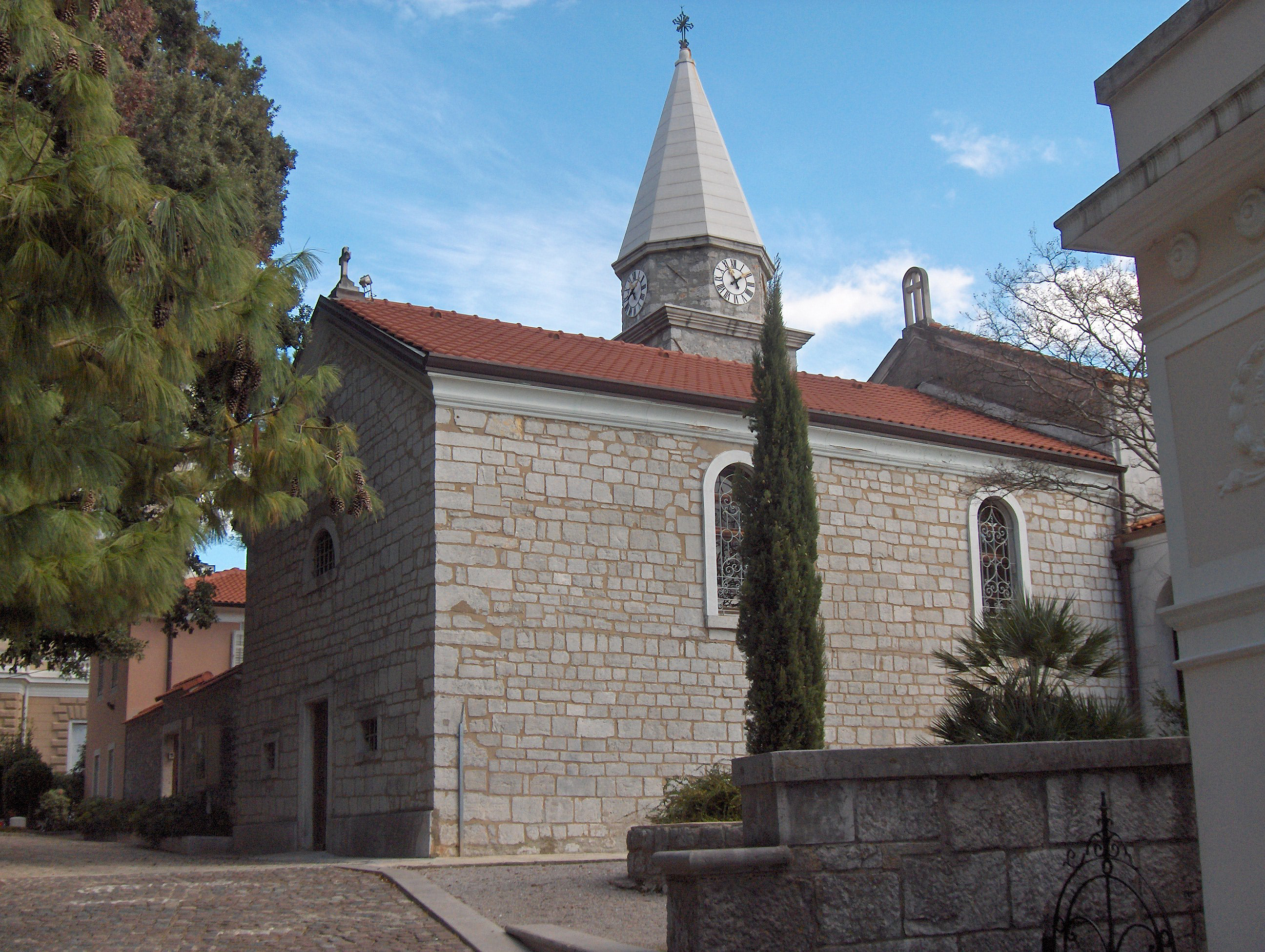 Saint Jacob church; Opatija, Croatia